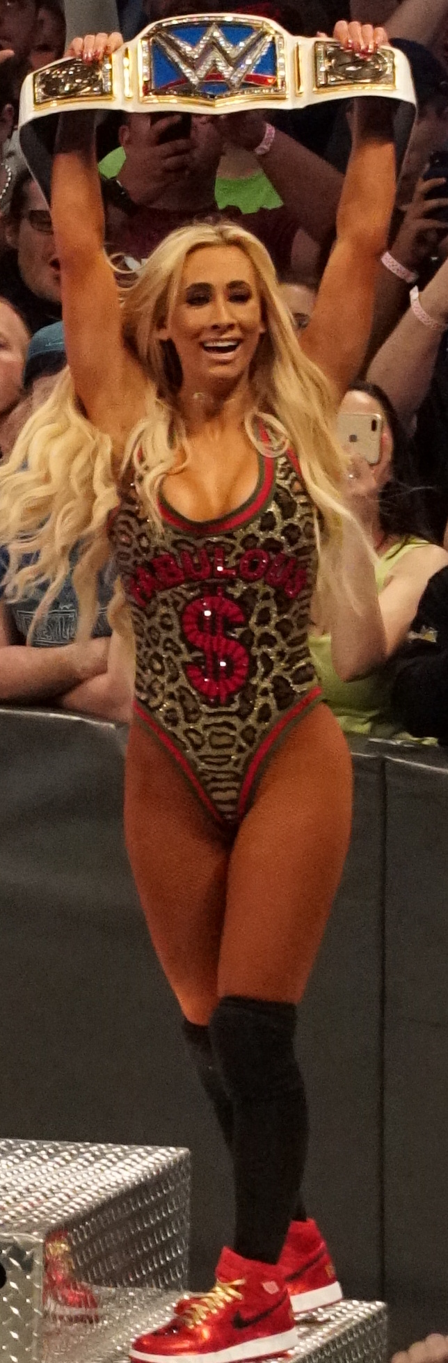 NOLA 2018 - WWE Smackdown Live - Carmella Vs Charlotte Flair Carmella def. (pin) Charlotte Flair (c) (in 00:14) For : WWE Smackdown Women's Title (title change) Cashing of the money in the bank after the attack of the Iconic ( Deux semaines a Nola pour la ville et pour WWE Wrestlemania XXXIV Two weeks Nola for the city and for WWE Wrestlemania XXXIV )